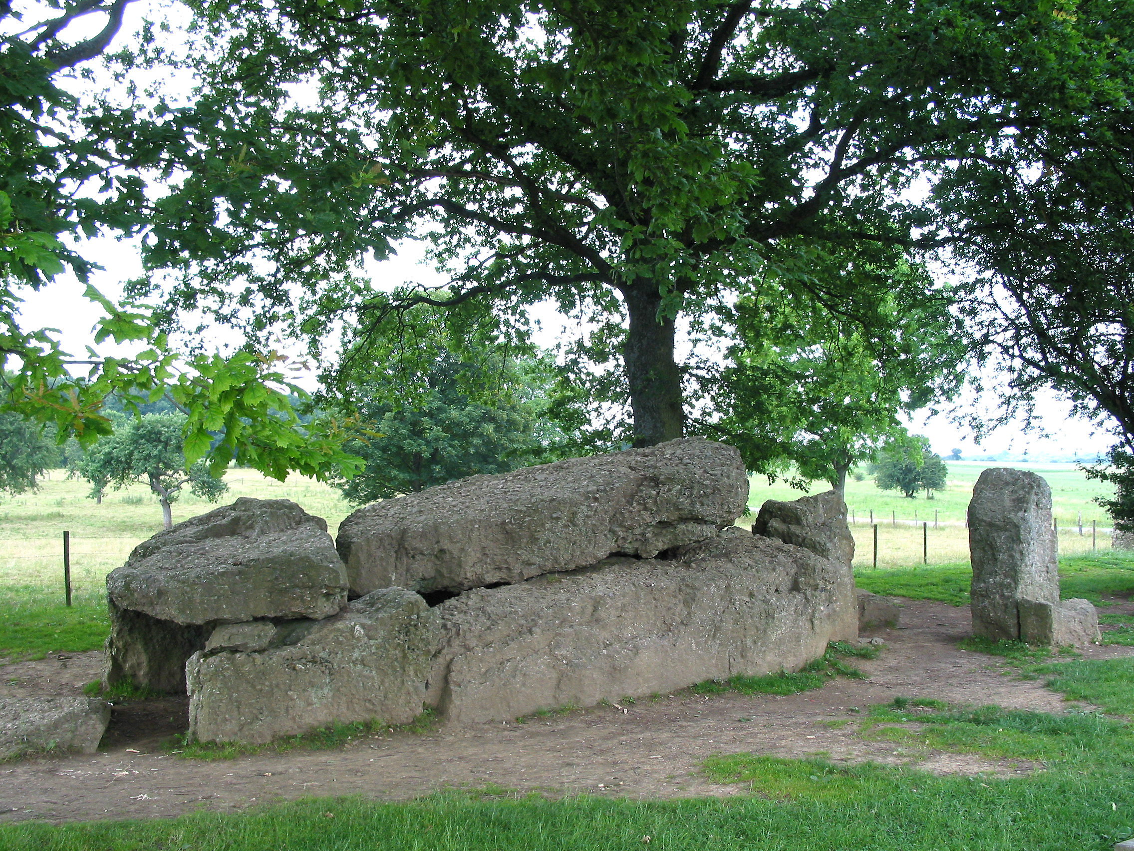 Wéris, the dolmen named dolmen Nord or Wéris I.